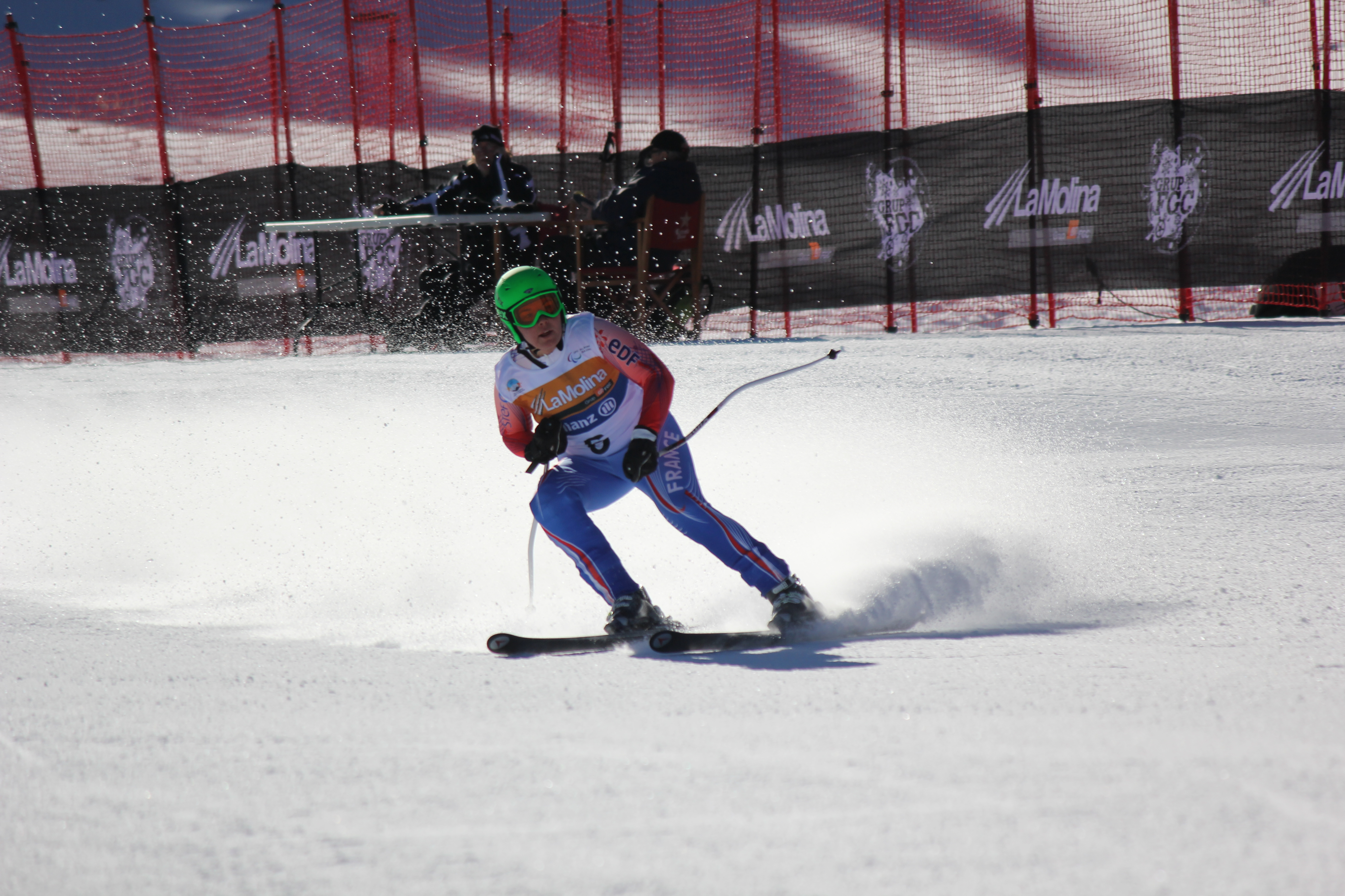 At the 2013 IPC Alpine World Championships in La Molina Spain. Downhill event. Women's standing group. Solene Jambaque of France.